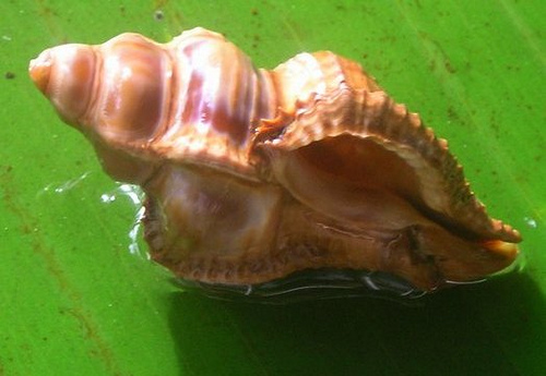 Chicoreus (Rhizophorimurex) capucinus (Lamarck, 1822) ; Mindanao, Philippines